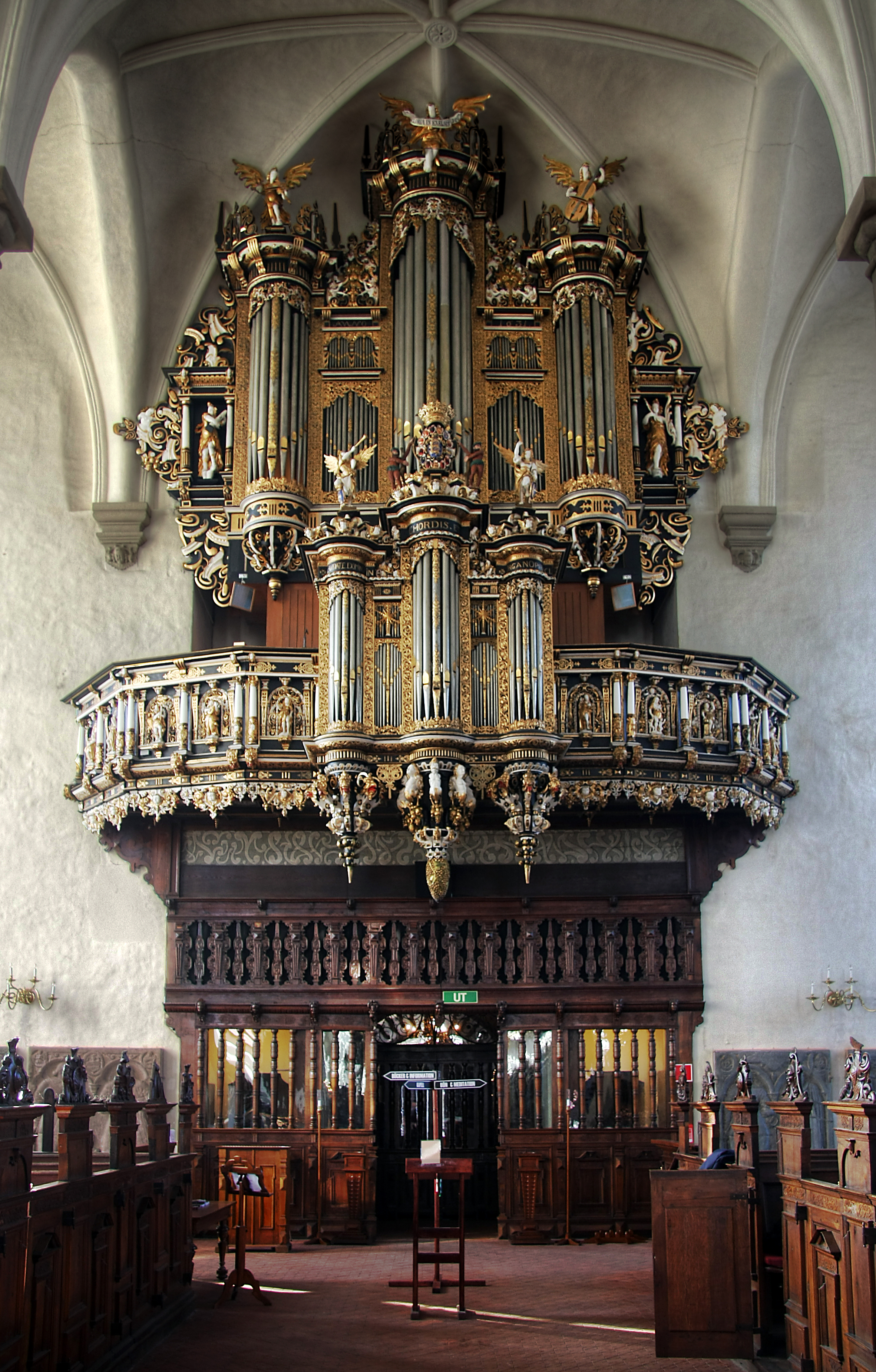 Church organ in Heliga Trefaldighets kyrka (Holy Trinity Church) in Kristianstad, Sweden.